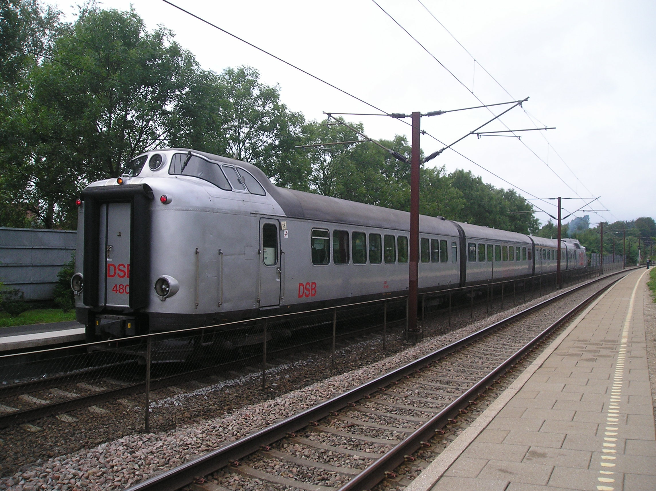 Danish multiple unit DSB Litra MA on Tommerup Station.